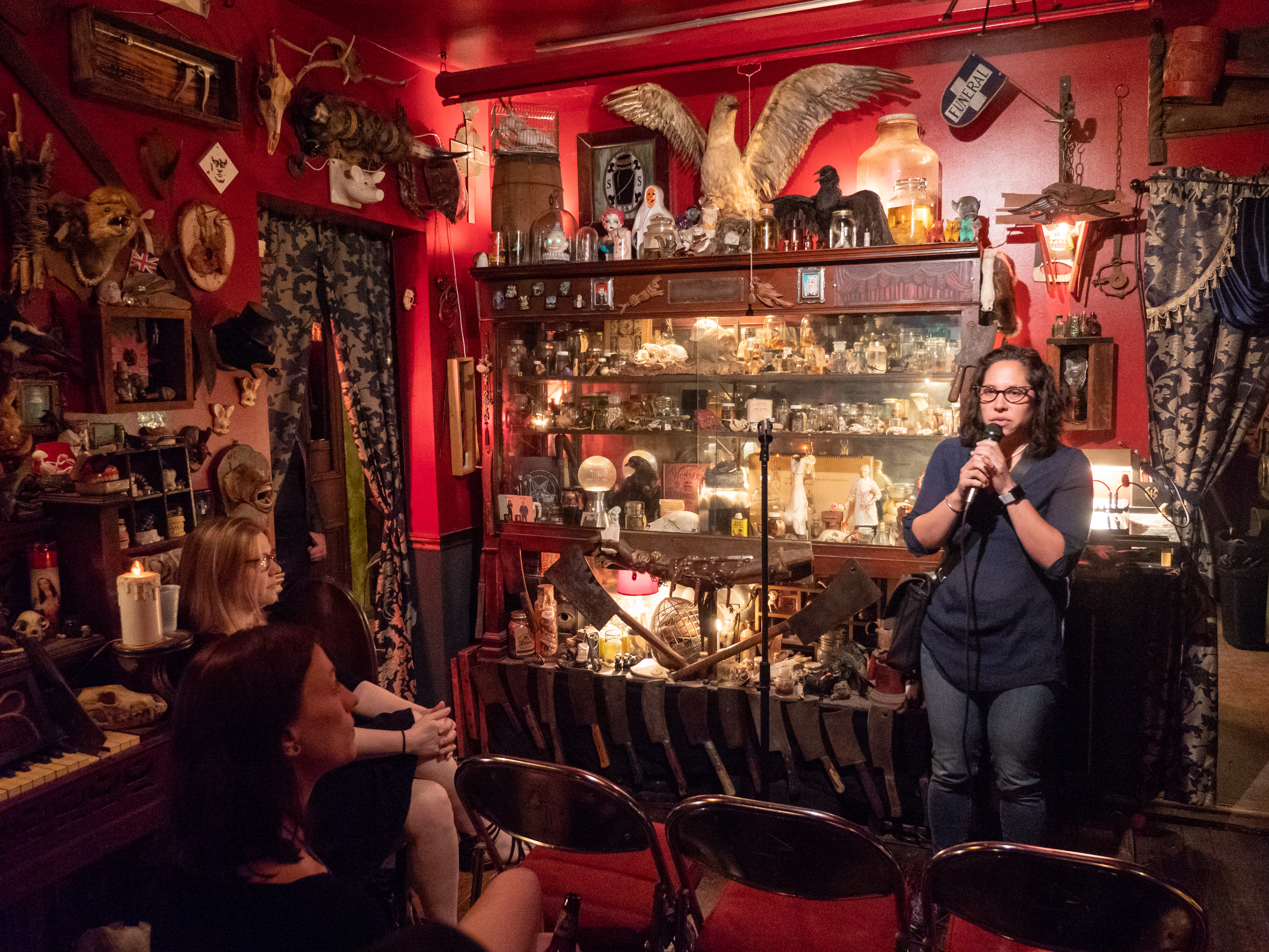 Trundle Manor hosts a comedy night in their parlor.